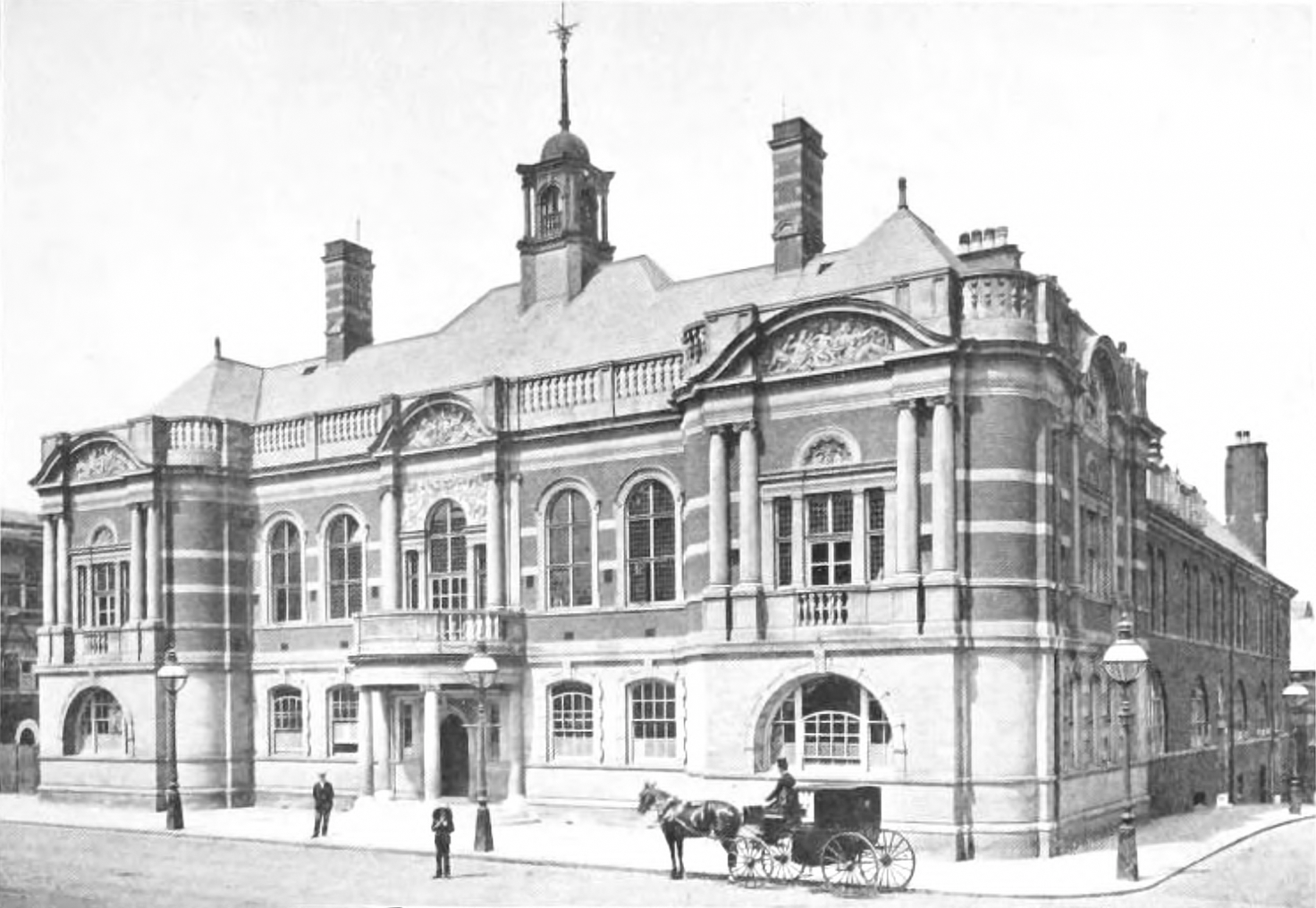 Battersea Town Hall photo, probably circa 1893, in a 1904 publication